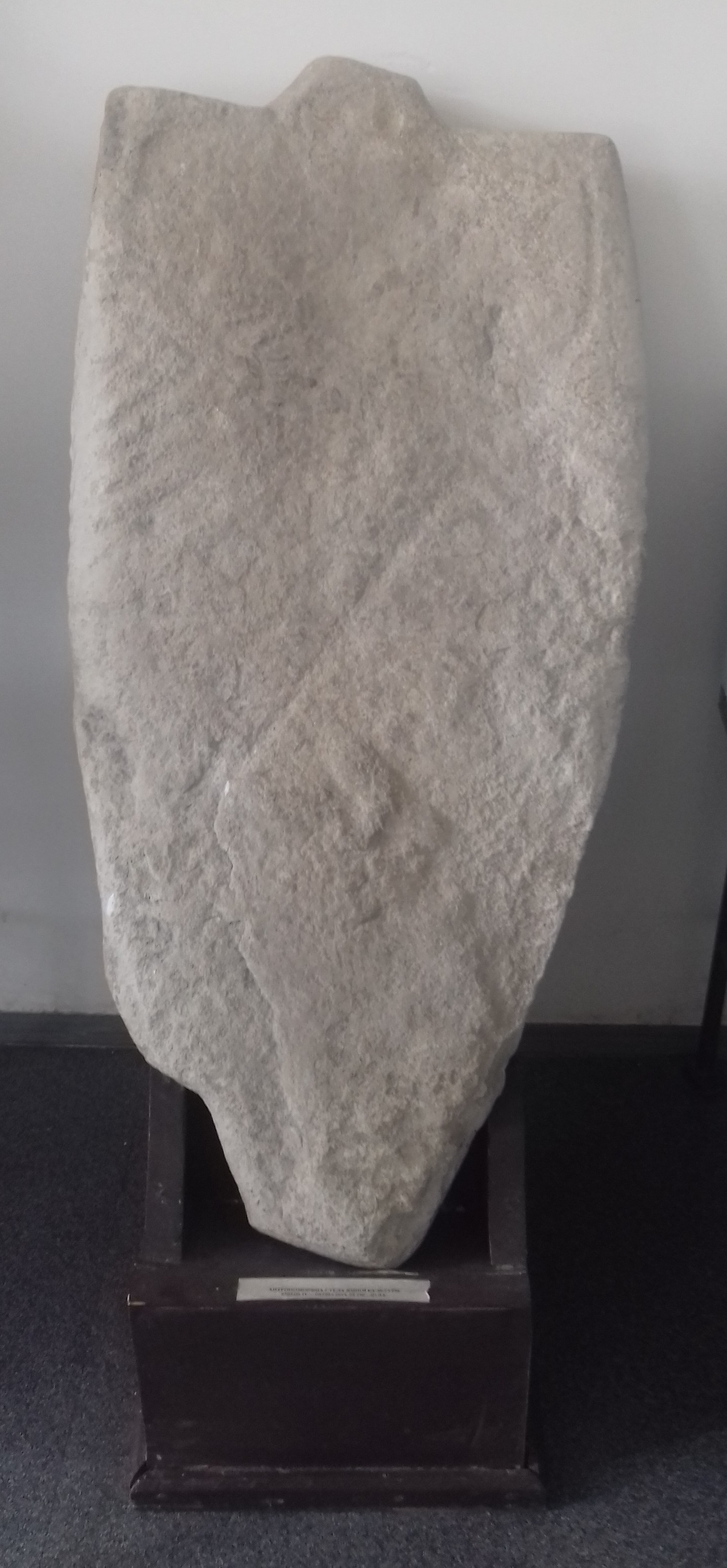 Anthropomorphic stelae. Yamna culture (Pit-Grave culture). 3100-2500 B.C. Odessa Archeological Museum.